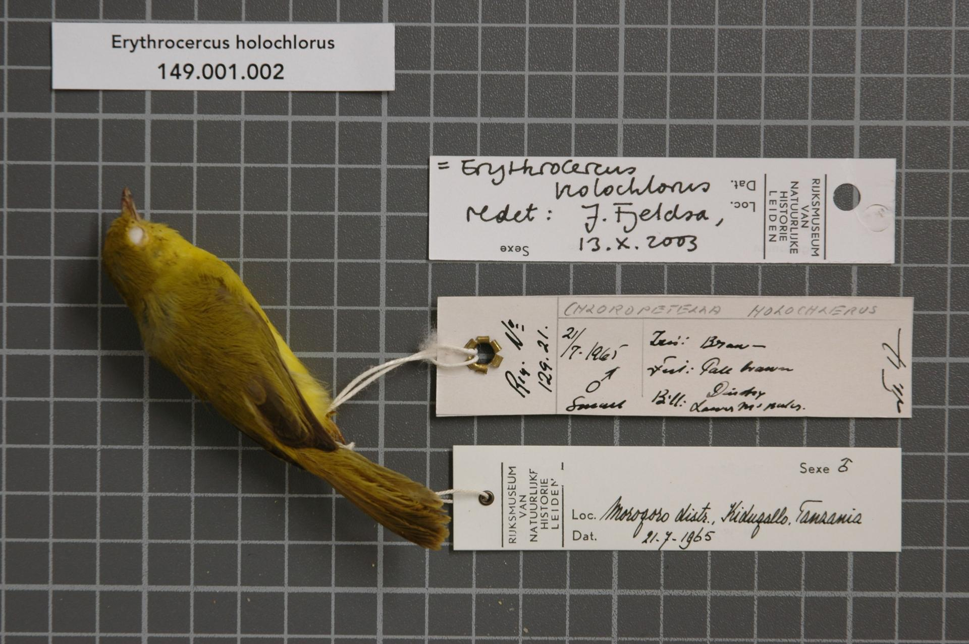 Erythrocercus holochlorus Erlanger, 1901